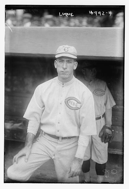 Dolph Luque, baseball player. Source: George Grantham Bain Collection, Library of Congress, Washington, D.C. TITLE: Dolf Luque, Cincinnati NL (baseball) CALL NUMBER: LC-B2- 4992-4[P&P] REPRODUCTION NUMBER: LC-DIG-ggbain-29193 (digital file from original negative). DATE: 1911